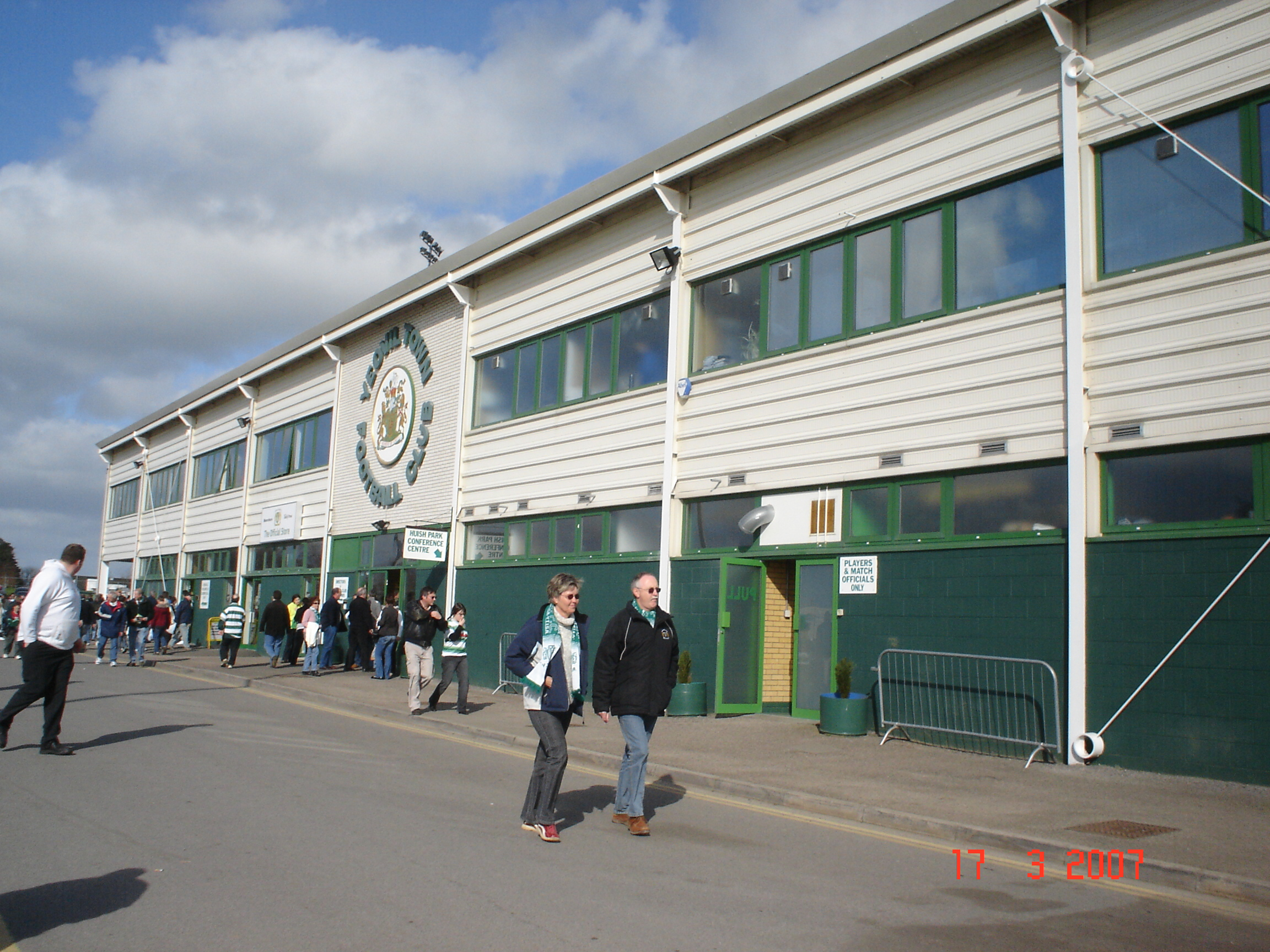 The External View of the Main Stand of Huish Park